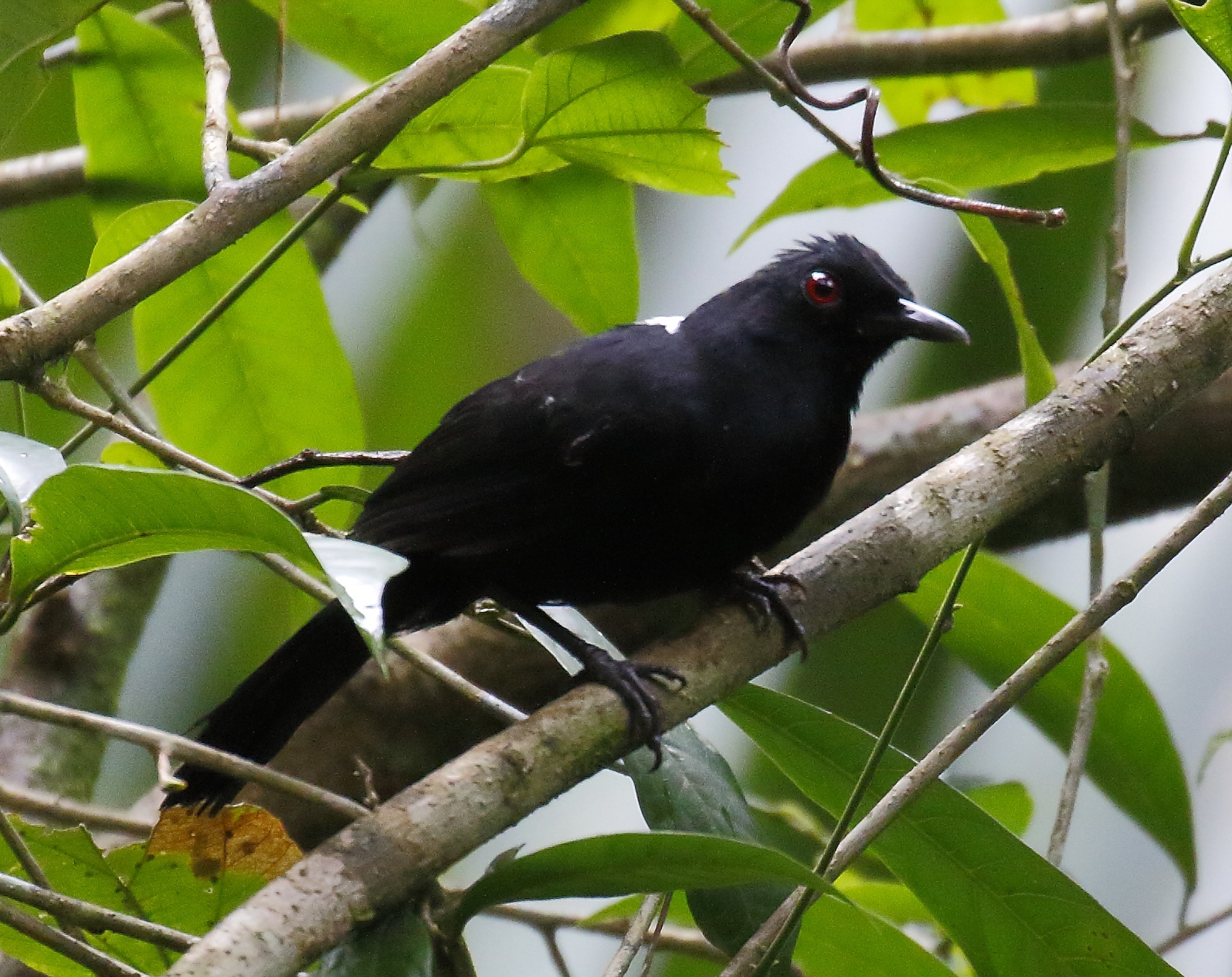 Pernambuco fire-eye (male) at Pilar, Alagoas, Brazil